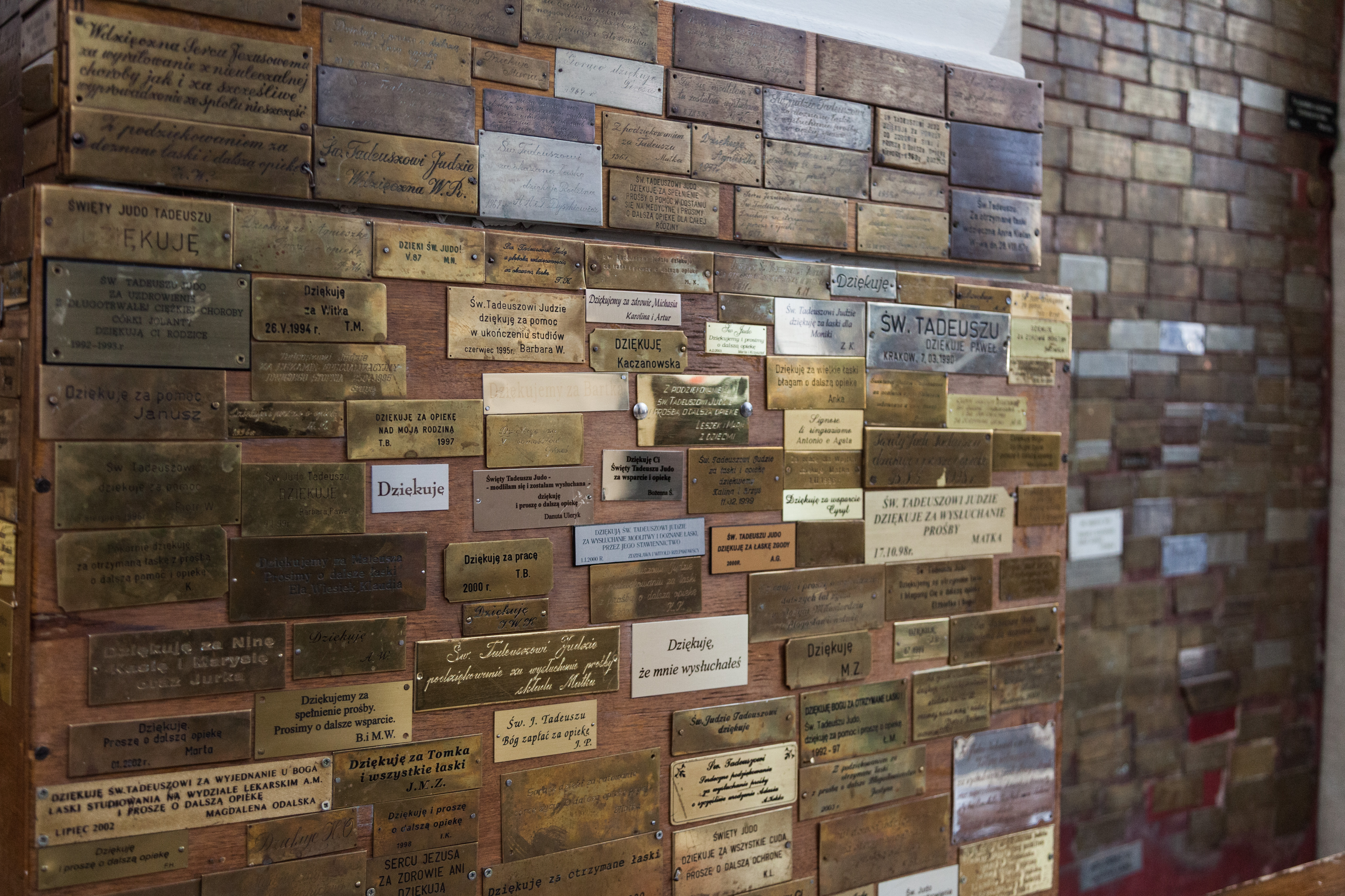 Votive plaques in church of Holy Cross in Warsaw, dedicated to St. Jude the Apostle.